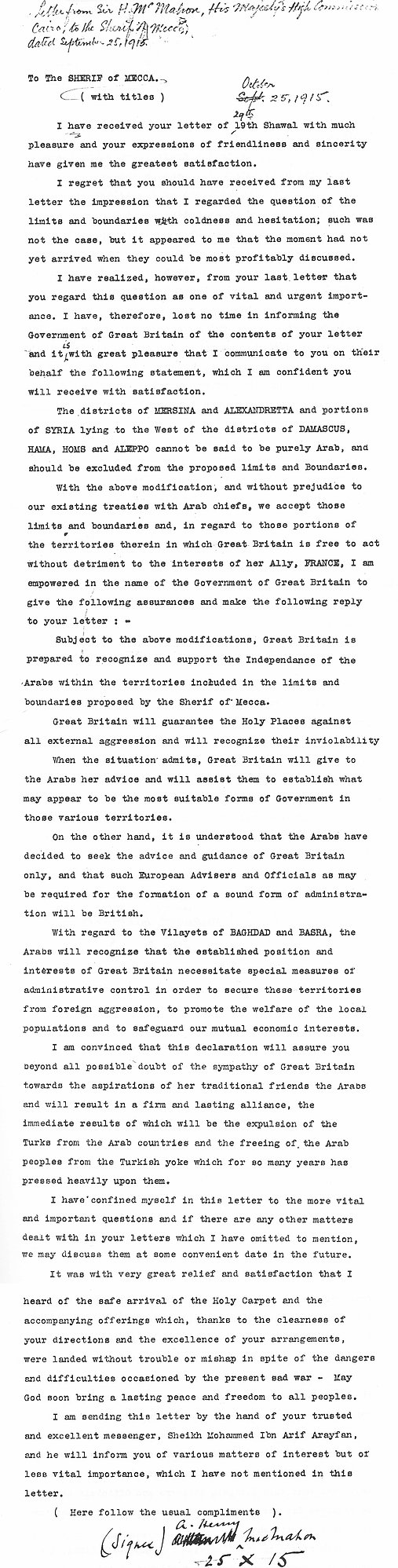 McMahon–Hussein Letter 25 October 1915